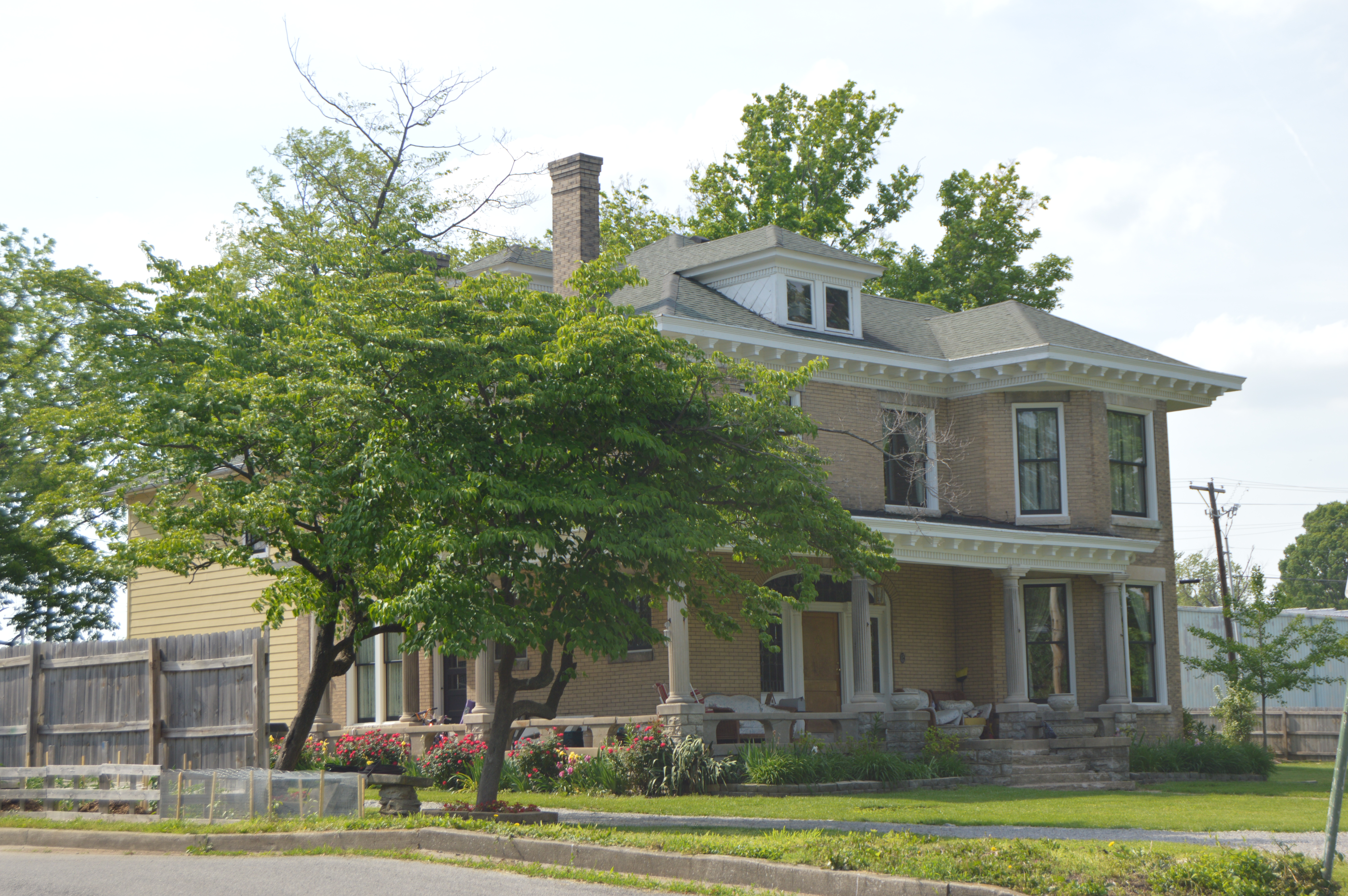 Front of Wickland, located at 169 Kentucky Street in Shelbyville, Kentucky, United States. Built in 1901, it is listed on the National Register of Historic Places.